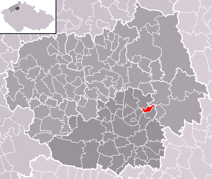 Location of Brzánky municipality within Litoměřice District and administrative area of Roudnice nad Labem as a Municipality with Extended Competence.